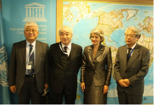 Kiyoshi Shimizu, Vice Minister of Education, Culture, Sports, Science and Technology, and Ichiroō Kanazawa, Vice-Chairperson of Japanese National Commission for UNESCO, met Irina Bokova, Director-General of the United Nations Educational, Scientific and Cultural Organization, with Isao Kiso, Ambassador to the United Nations Educational, Scientific and Cultural Organization, at the Place de Fontenoy in Paris Commune, Paris Department, Île-de-France Region on October 23, 2011.